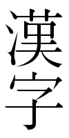 Kanji of the Japanese word "kanji" (Chinese characters used in Japanese). The typeface used is "Kochi Mincho" (90pt). Image:Japanese word 'Kanji' (Mincho typeface).png